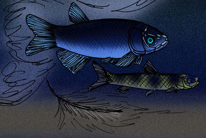 Reconstructions of the freshwater fishes, Koonwarria manifrons (top), and Waldmanichthys (Leptolepis) koonwarri, of Cretaceous Australia (C) Stanton F. Fink